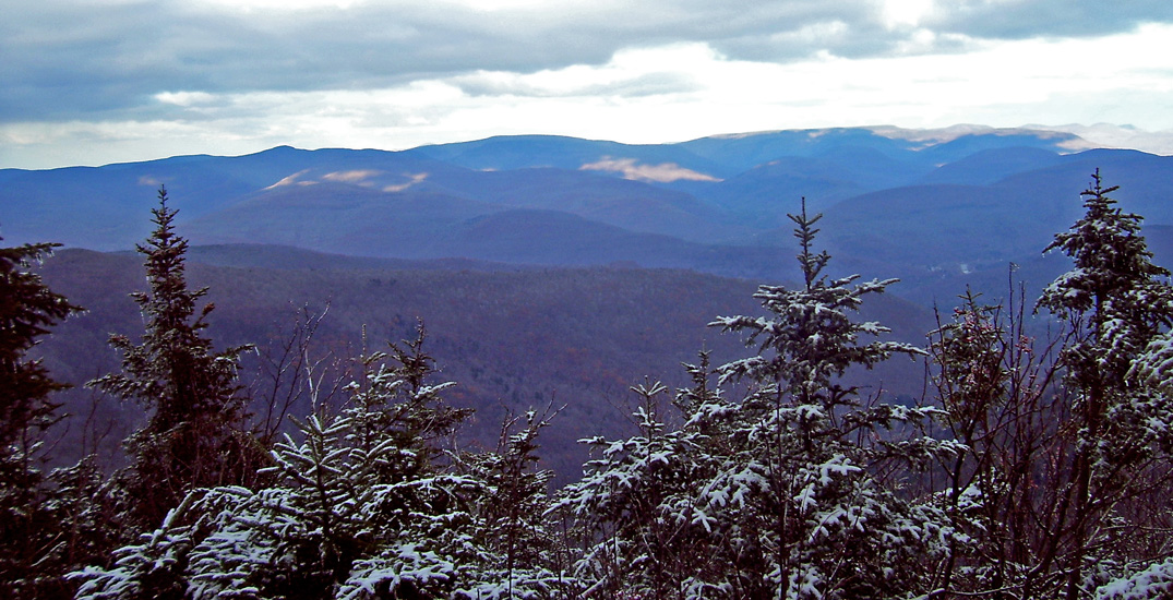 Photographed by Daniel Case 2006-11-04